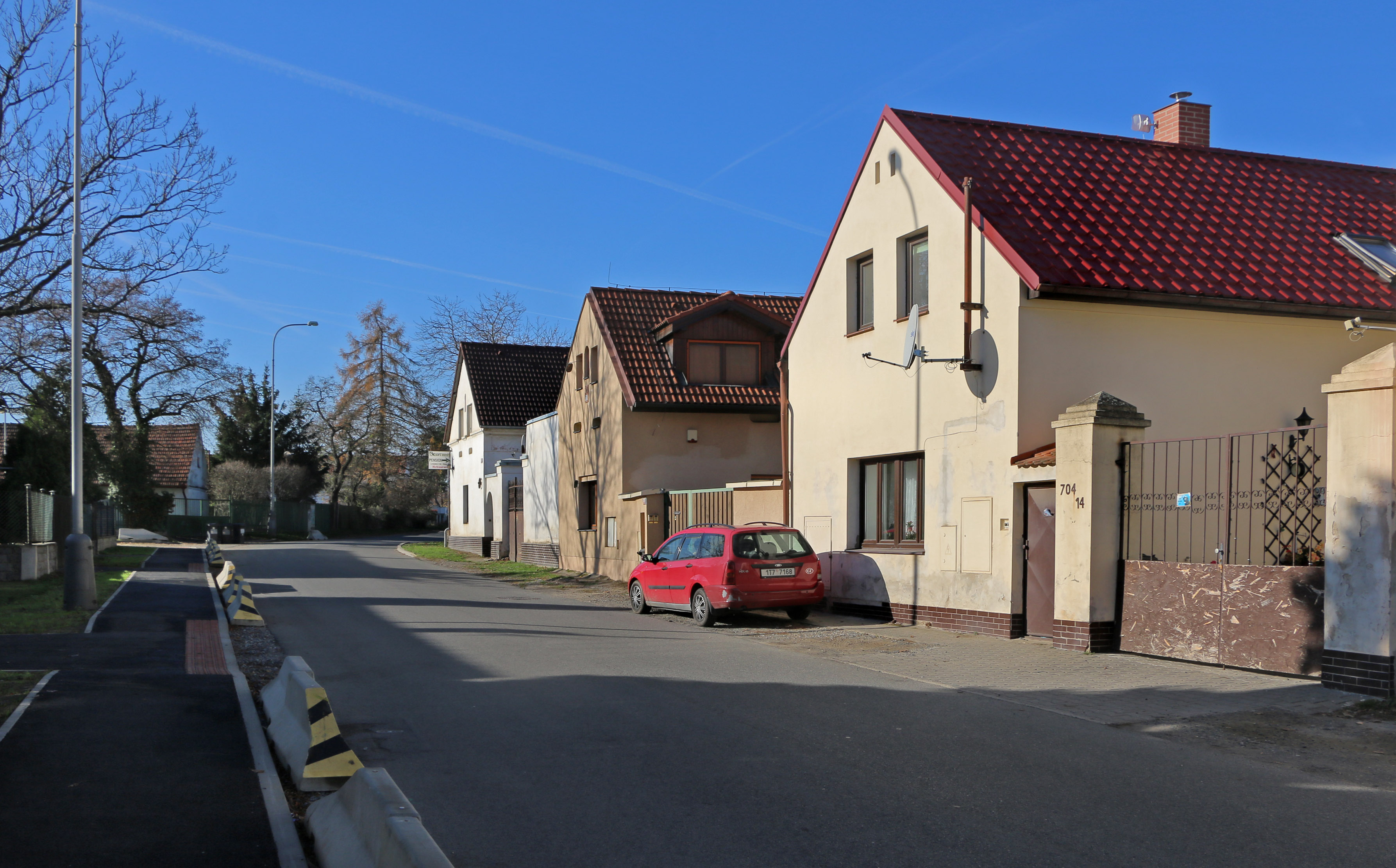 U Rakovky street, Prague.